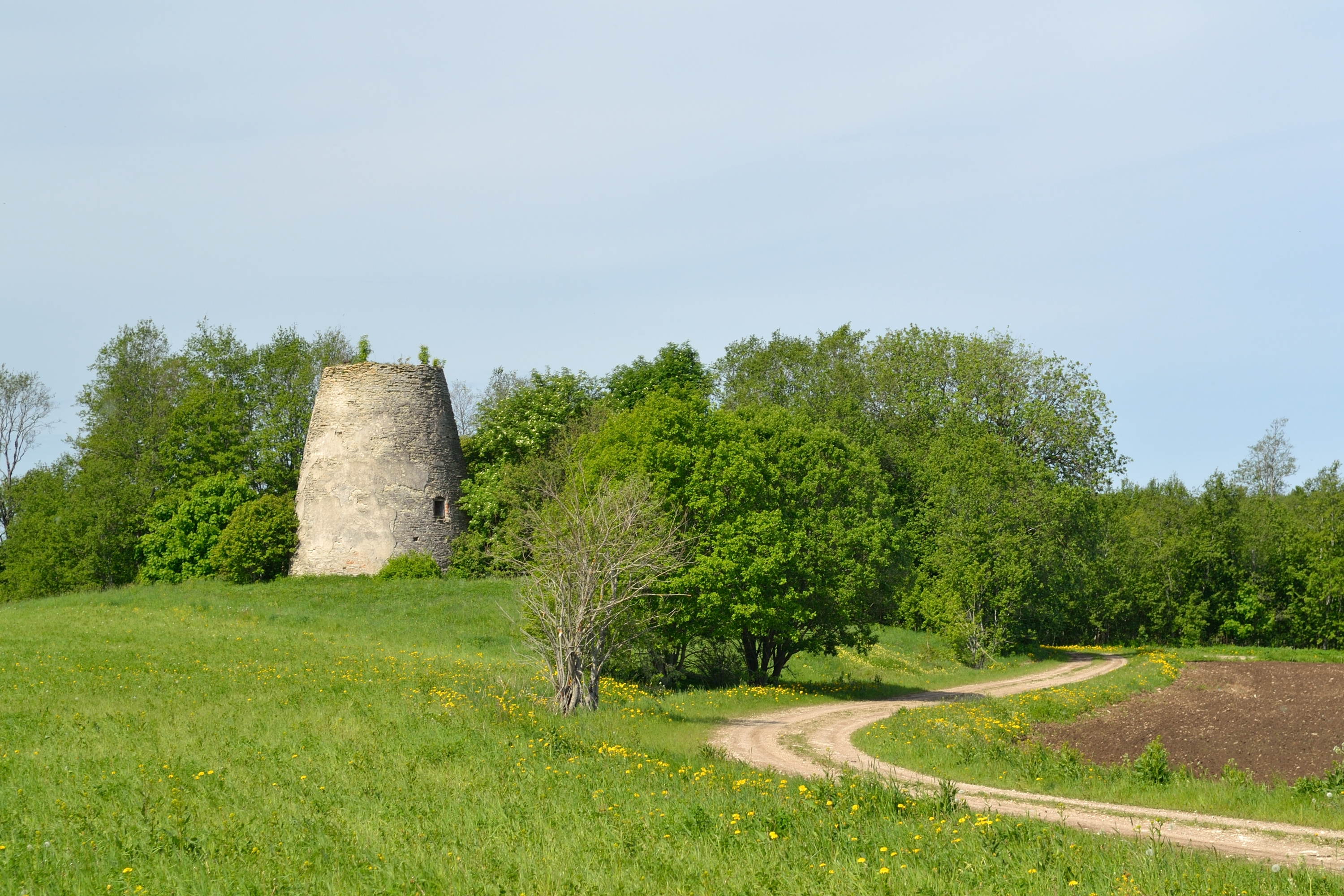 Kavastu manor windmill ruins